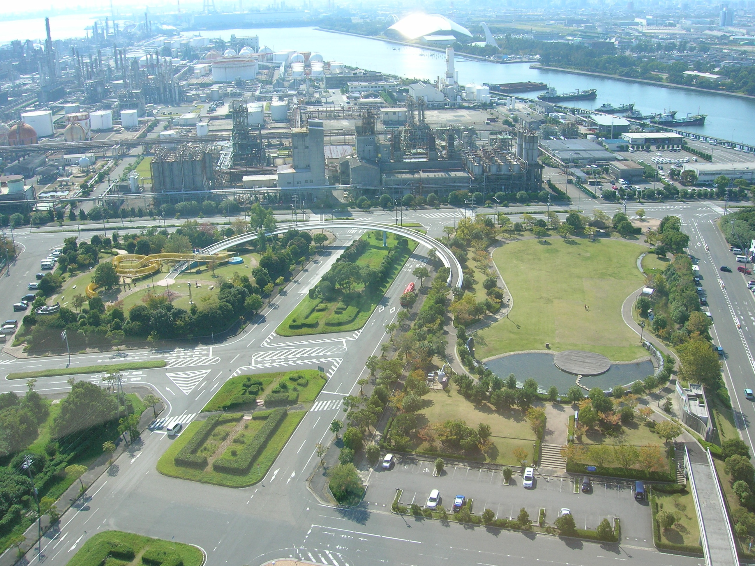 Sydney-kô(Sydney port) park and Kasumi-minato park, under the Yokkaichi Port Building. Loc: Yokkaichi city, Mie Prefecture, Japan. 四日市港ポートビルの足元にあるシドニー港公園（左）と霞港公園（右） 撮影場所 三重県四日市市